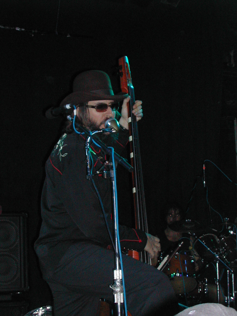 Les Claypool with electric upright bass, live at Toad's Place, New Haven, CT 10/17/05